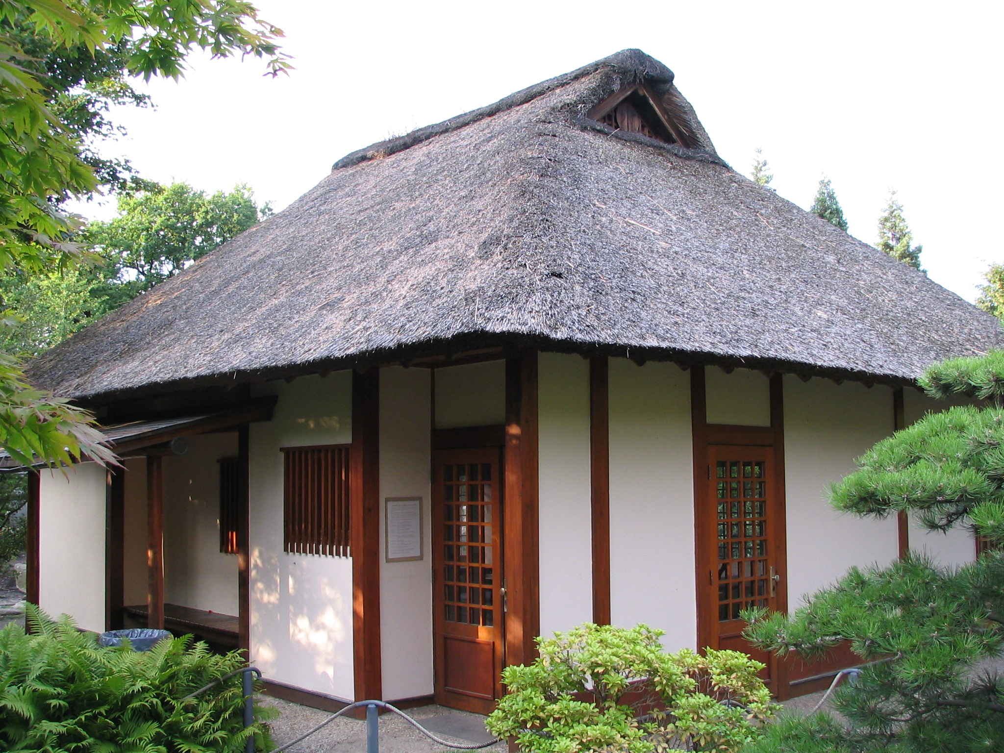 Tea house in Japanese garden, Hamburg